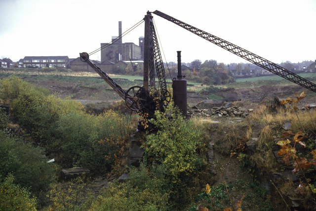 Fagley Quarries Hard York Stone quarries. Two cranes, one without boiler. Out of use since about 1970. Moorside Mills in the background